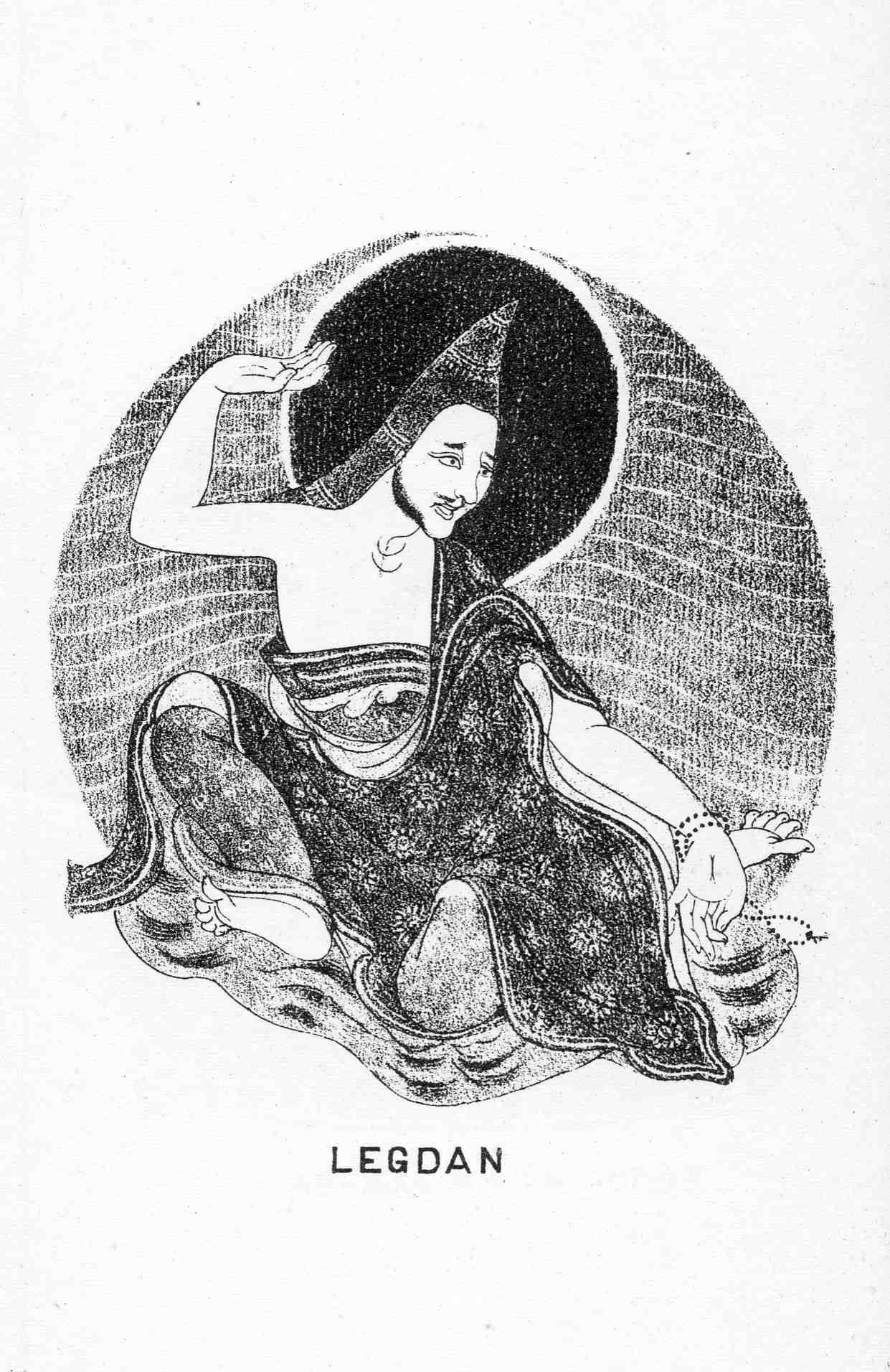 Image taken from Sarat Chandra Das' "The Lives of the Panchhen—Rinpoches or Tas'i Lamas" first published in The Journal of the Asiatic Society of Bengal, Vol. LI (1882), so it is in the public domain. John Hill 03:22, 28 September 2007 (UTC)